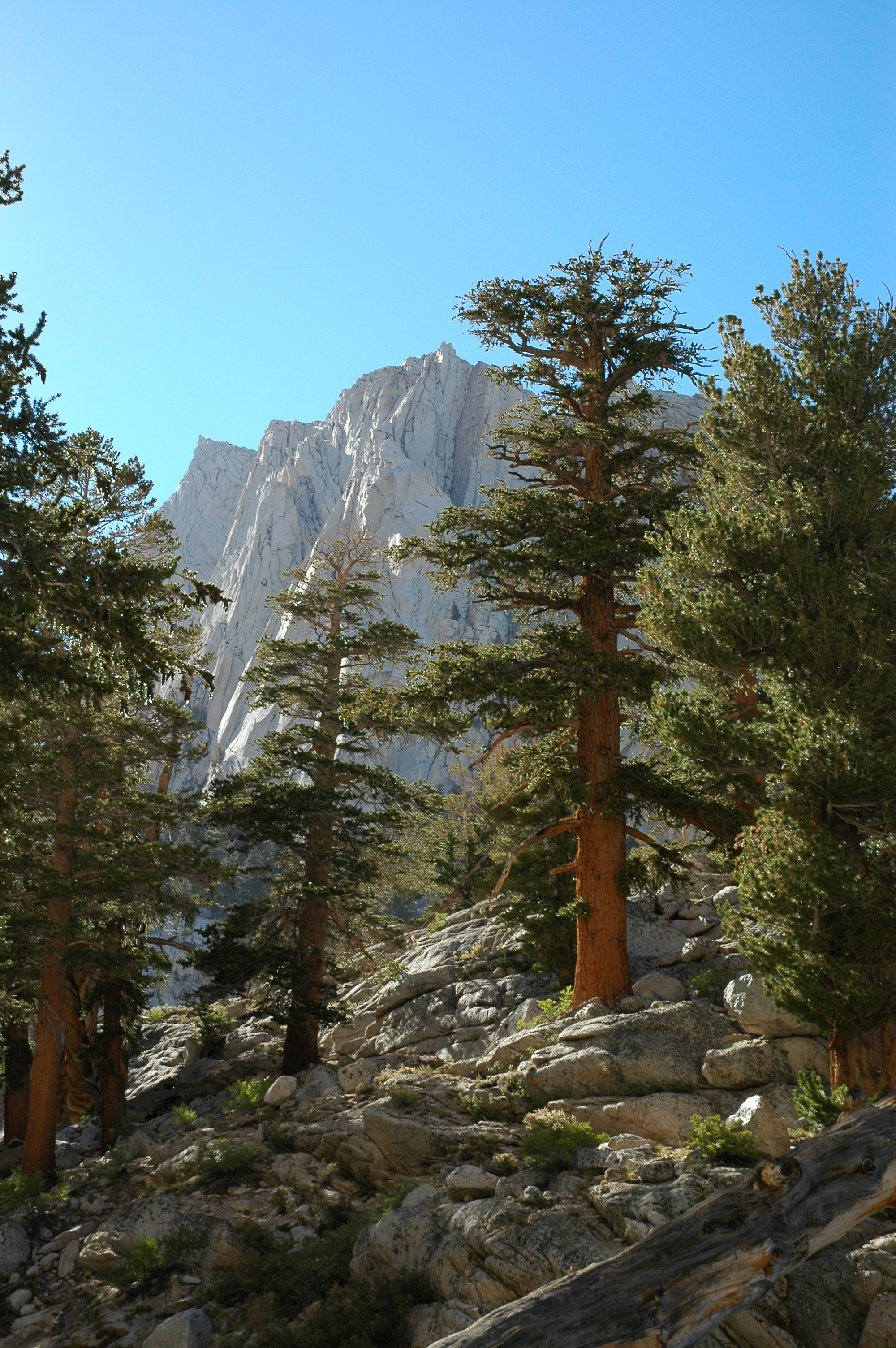 Pinus balfouriana (center & left) and Pinus flexilis (far right). Lone Pine Lake, Eastern Sierra Nevada, California.